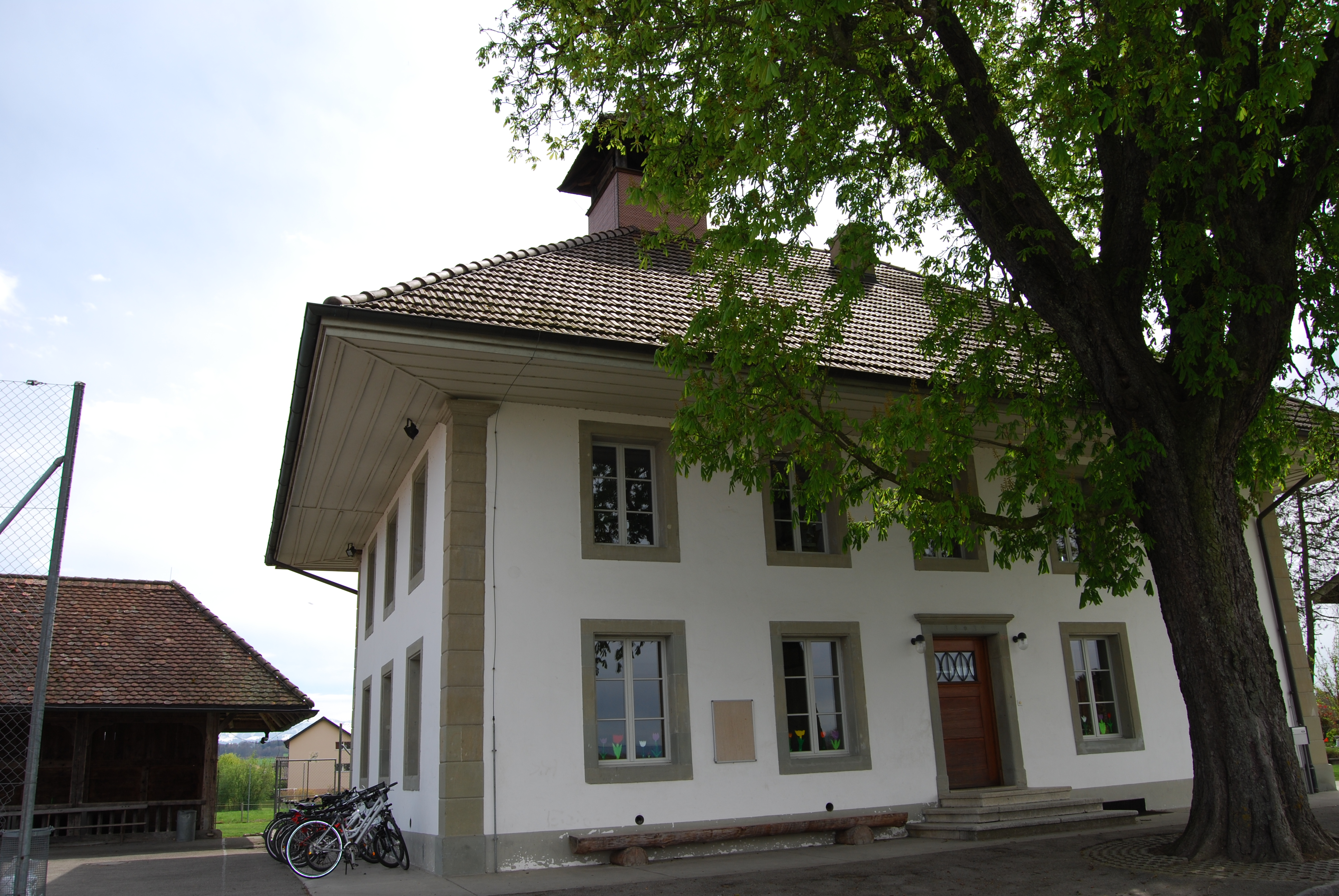 Kriechenwil, canton of Bern, SwitzerlandEsperanto: Kriechenwil, Kantono Berno, Svislando